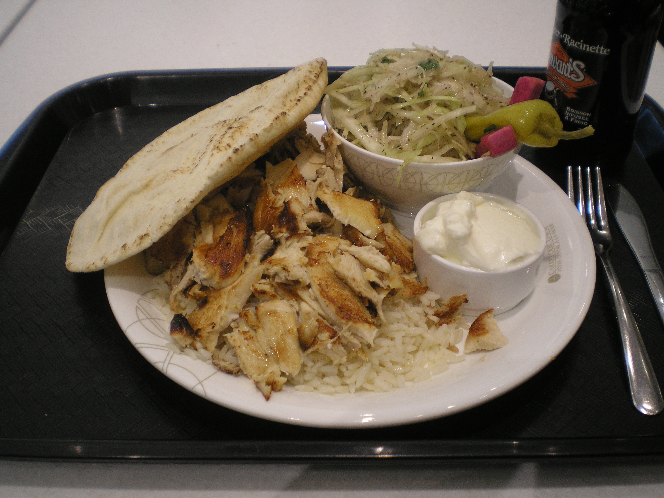 A shoarma platter from Zouki's at the Carrefour Laval food court.